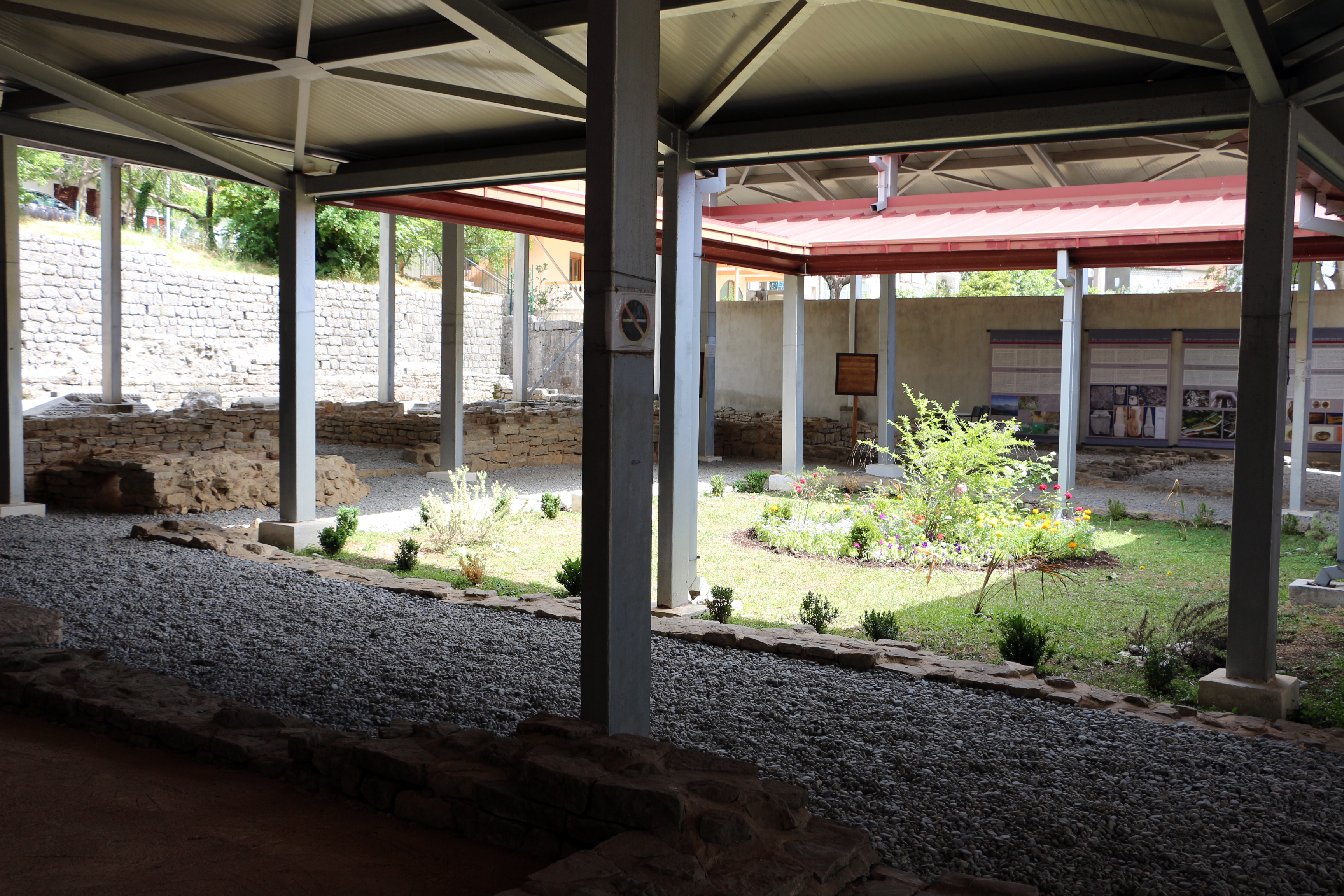 Ancient Roman villa of Risan